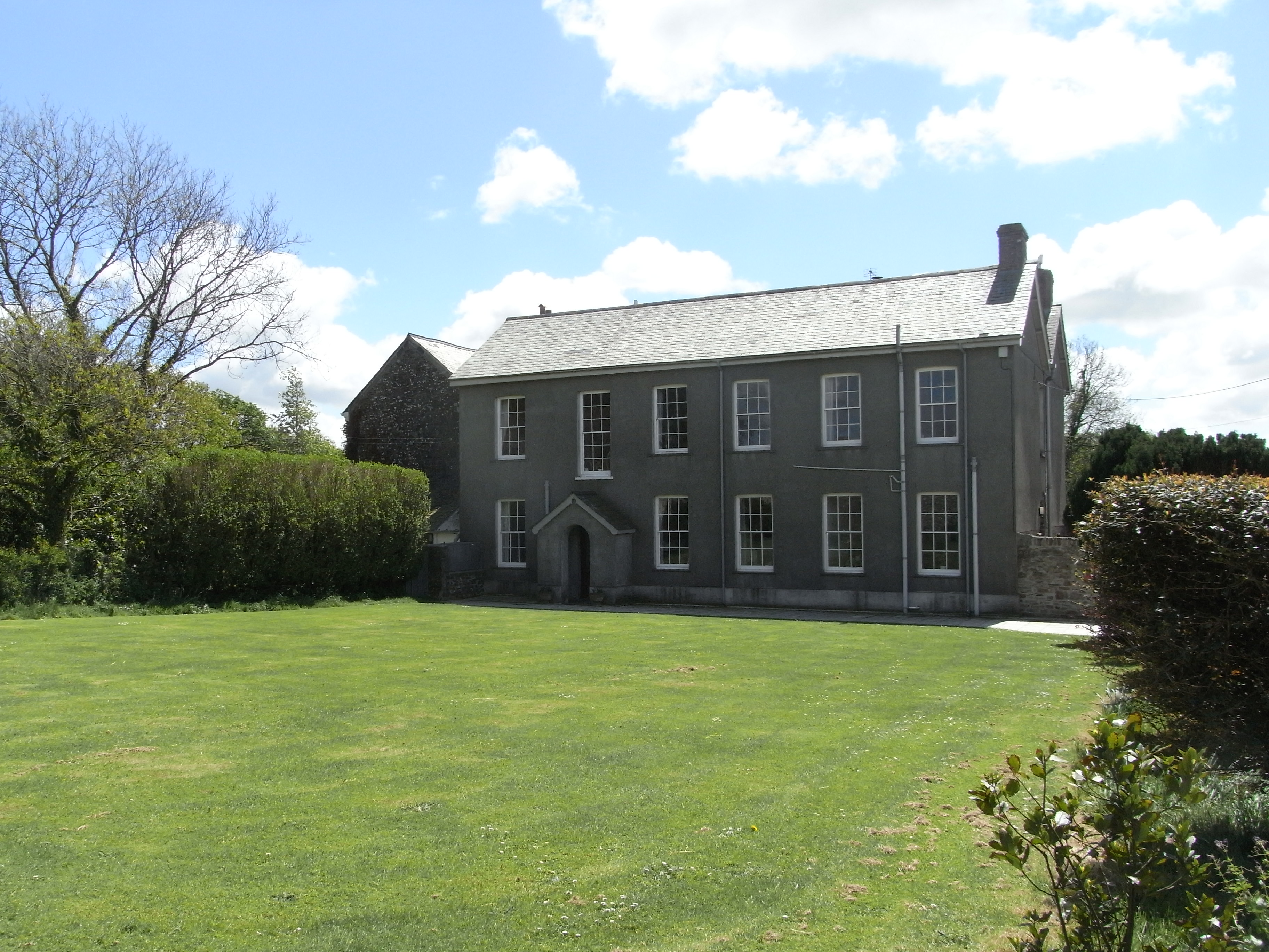 Thuborough, in the parish of Sutcombe, Devon, north wing, comprising "Thuborough Barton", the east wing comprising "Thuborough House", the gable end of which is visible at left.